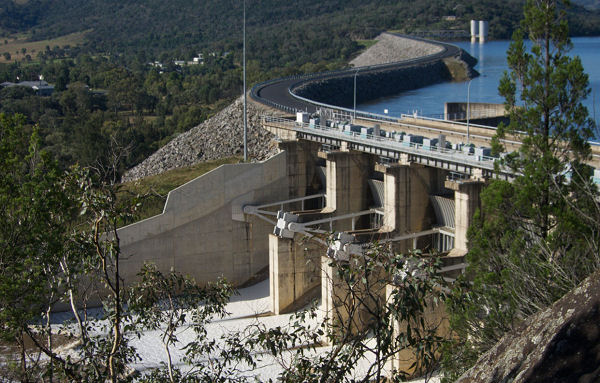 Wyangala Dam spillway with village in the background.